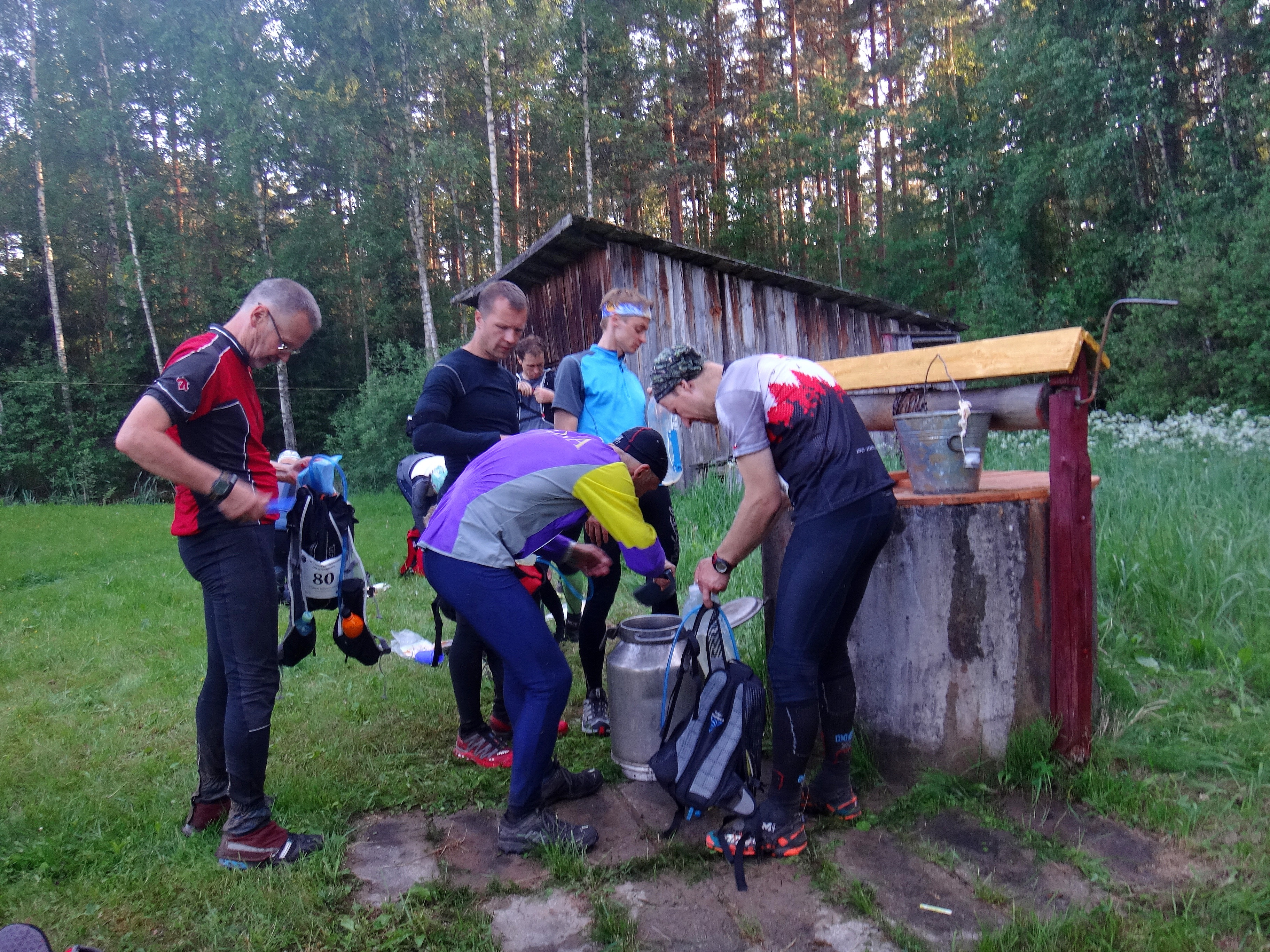 11th European Rogaining Championships 2014, 7-8 June 2014, Estonia. Participants at a water well.